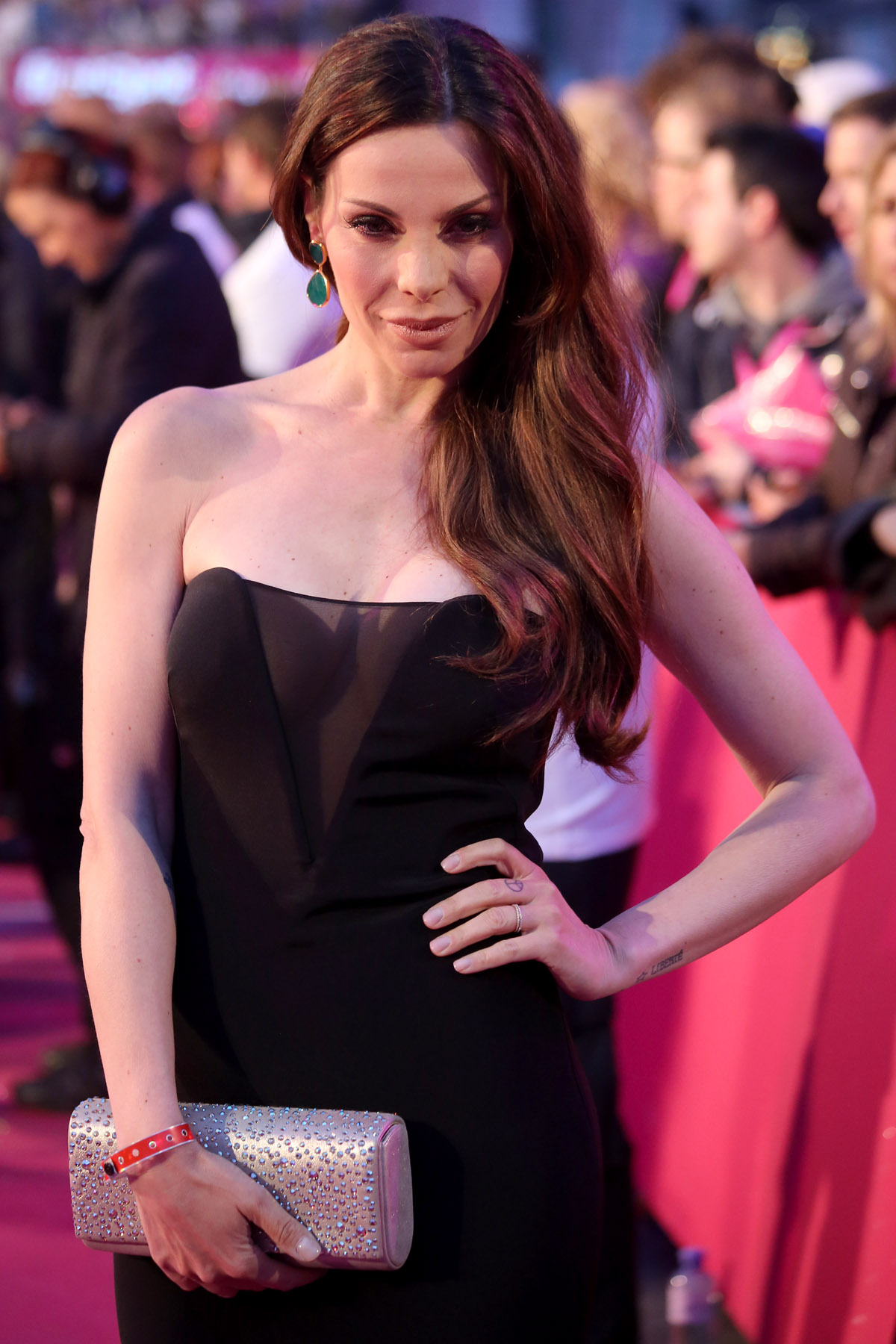 Katrin Lampe on the 'magenta carpet' at Life Ball 2013 at the square in front of the city hall of Vienna, Vienna, Austria.